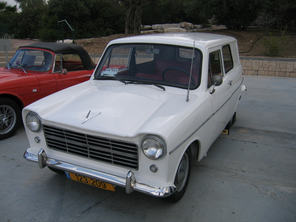 Sixties Susita Wagon/Van (also spelled Sussita), a Reliant-developed fibreglass car built in Israel